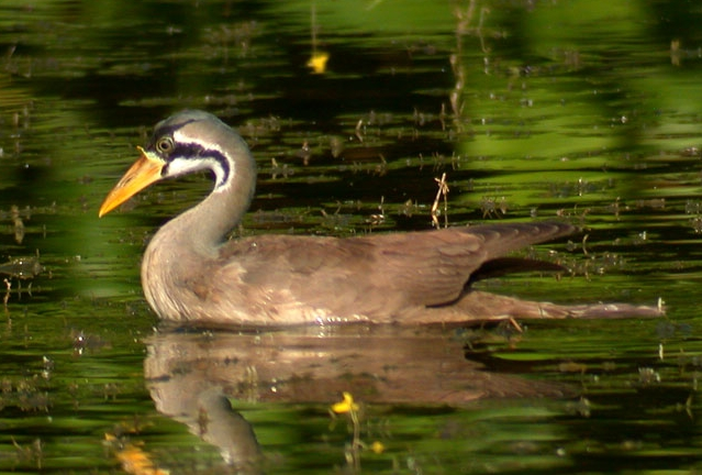 Masked finfoot